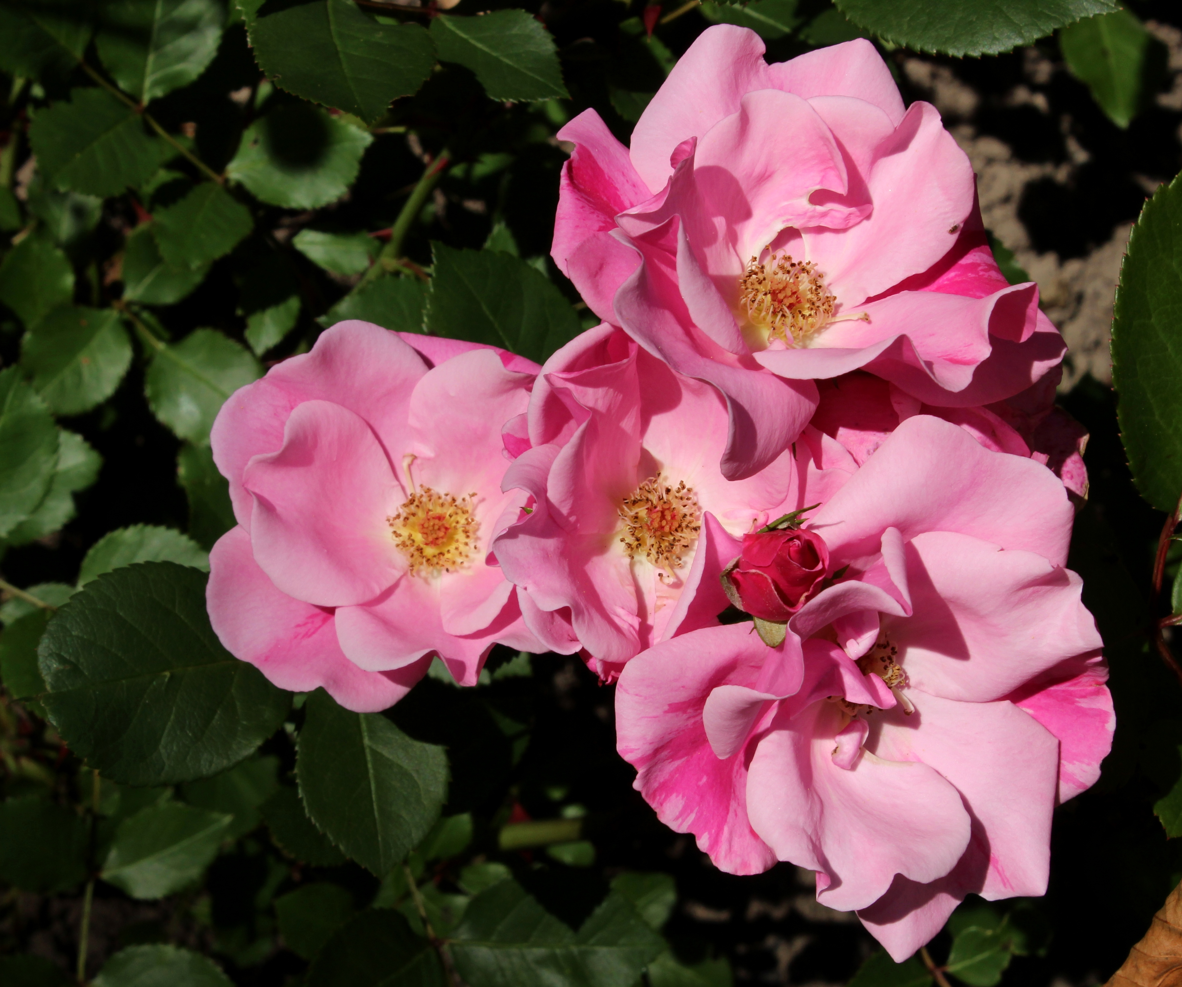 Rosa 'Else Poulsen' in the Rosarium Baden in the Doblhoffpark in Baden bei Wien. Identified by sign.